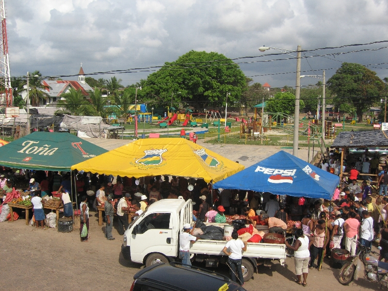 market place in Bilwi (Puerto Cabezas), Nicaragua